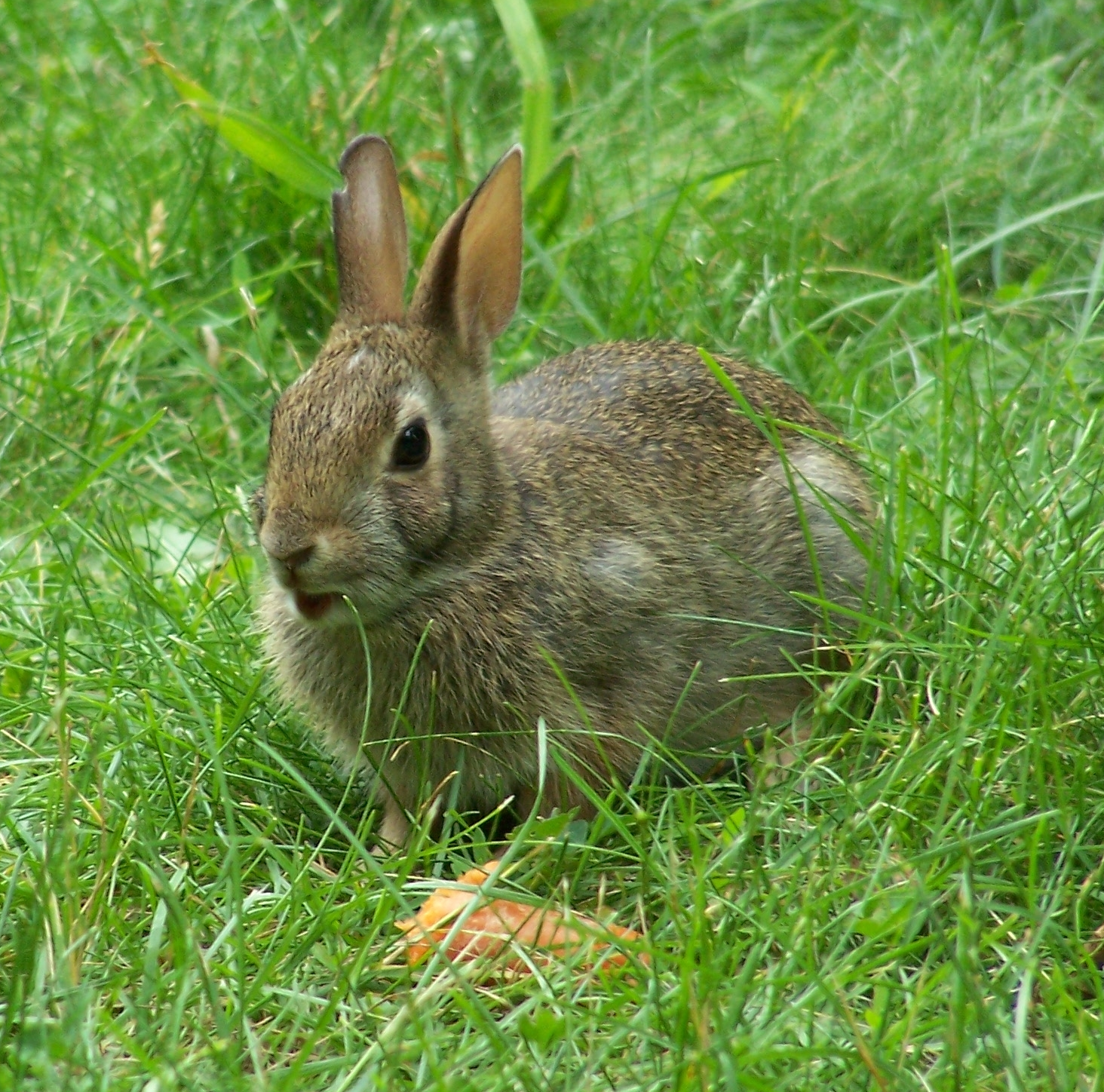 The European rabbit Oryctolagus cuniculus and a carrot